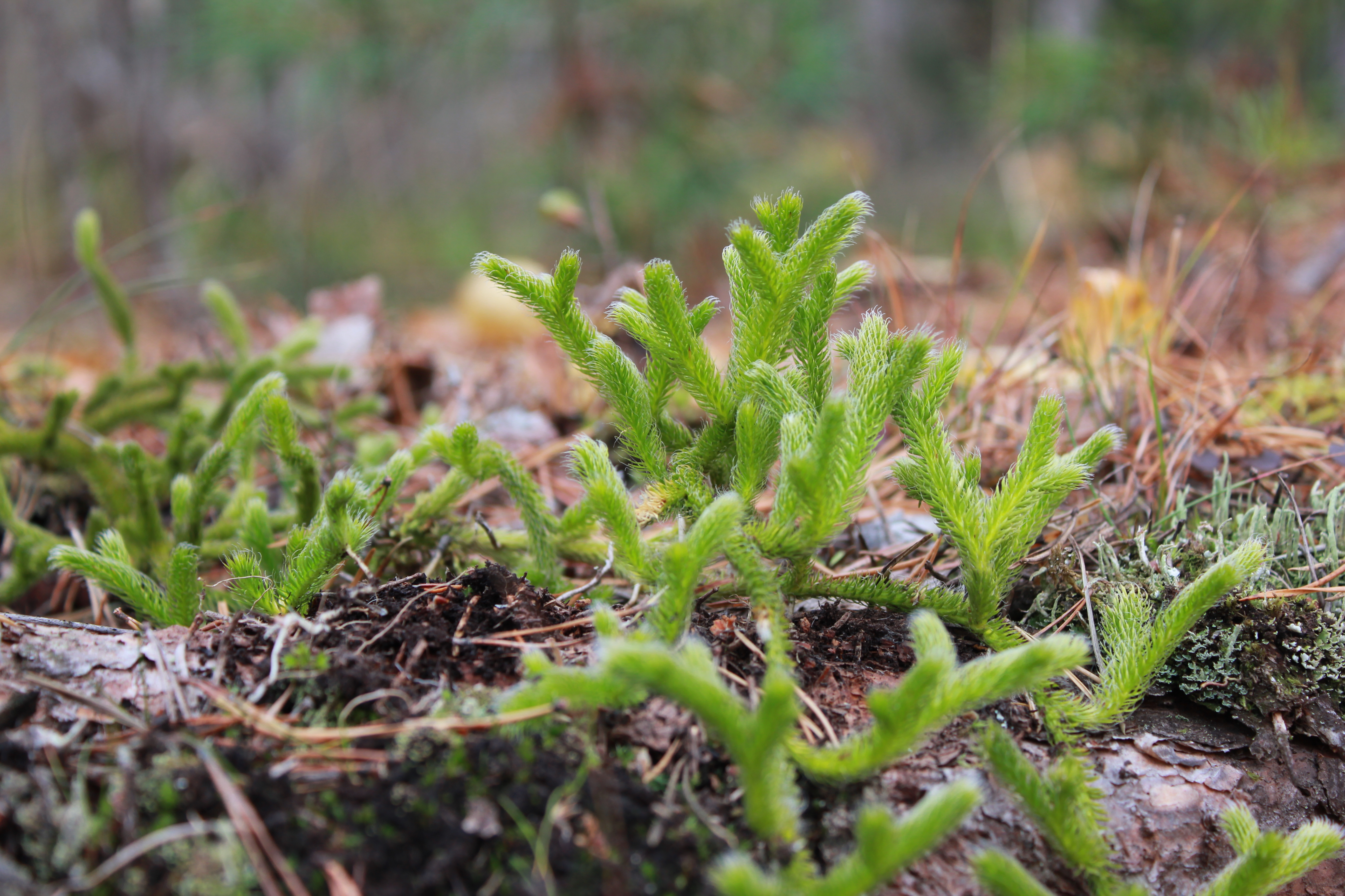 Wolf's-foot clubmoss (Lycopodium clavatum)